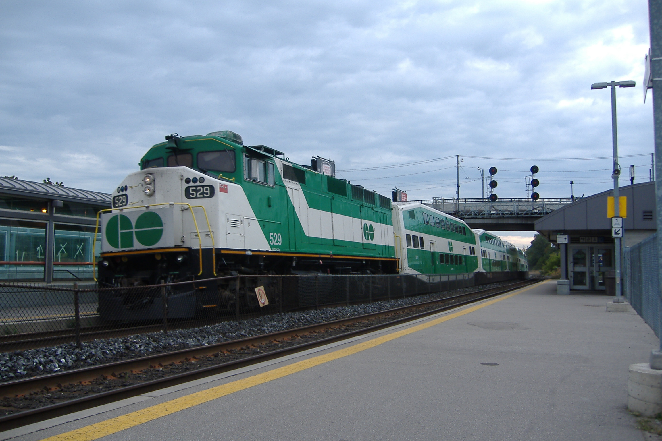 GO train on its way out of Toronto